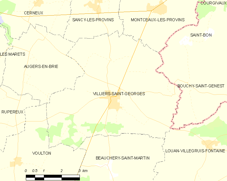 Map of French municipality Villiers-Saint-Georges